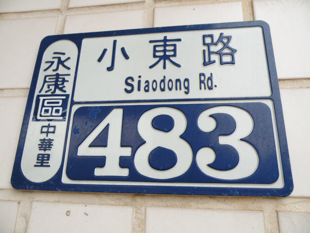 A example about the reform of administrative divisions in Yongkang District, Tainan City, Taiwan. 中文（台灣）: 2010年臺南市縣合併改制直轄市，原永康市門牌以貼紙暫時改為「區」Bân-lâm-gú: 2010-nî Tâi-lâm tshī kuān ha̍p-pìng kái-tsè Ti̍t-ha̍t-tshī. Guân Íng-khong-tshī mn̂g-pâi í tah-tsuá tsiām-sî kái uî khu(區).